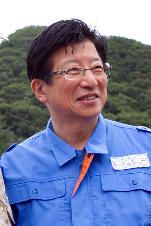 Heita Kawakatsu, Governor of Shizuoka Prefecture, discussed plans for conducting humanitarian assistance and disaster relief operations during the "Shizuoka Disaster Drill" in Shimoda City, Shizuoka Prefecture on August 31, 2014.